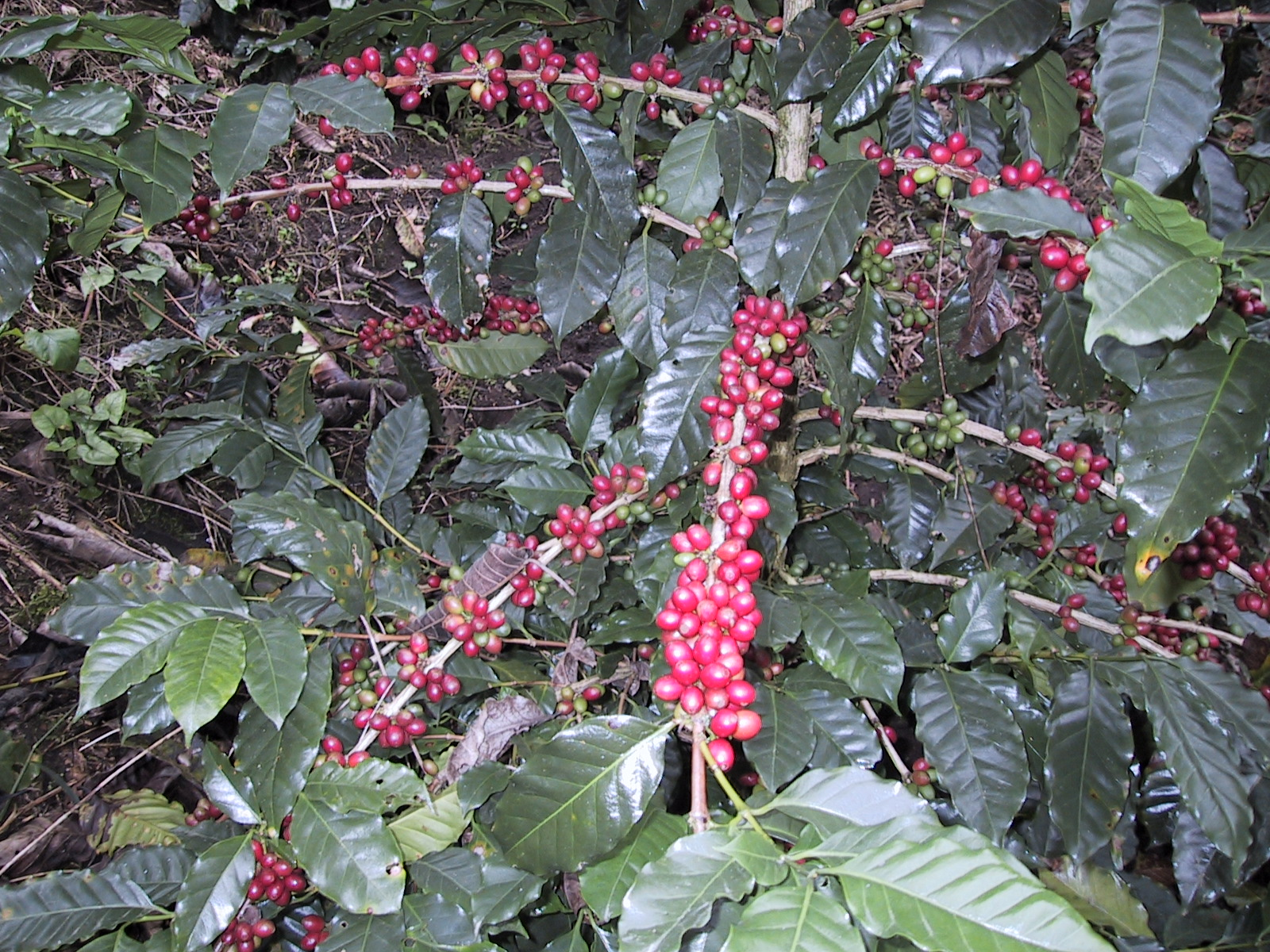 Coffe beans in Zihuateutla, Puebla, México